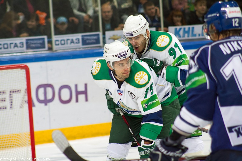 Salavat Ulaev Ufa players Oleg Saprykin (#91) and Richard Stehlík (#75) during KHL game against Amur Khabarovsk on September 23, 2011.